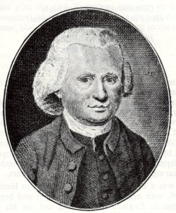 An engraving of Welsh Methodist preacher and hymnwriter Thomas Olivers.